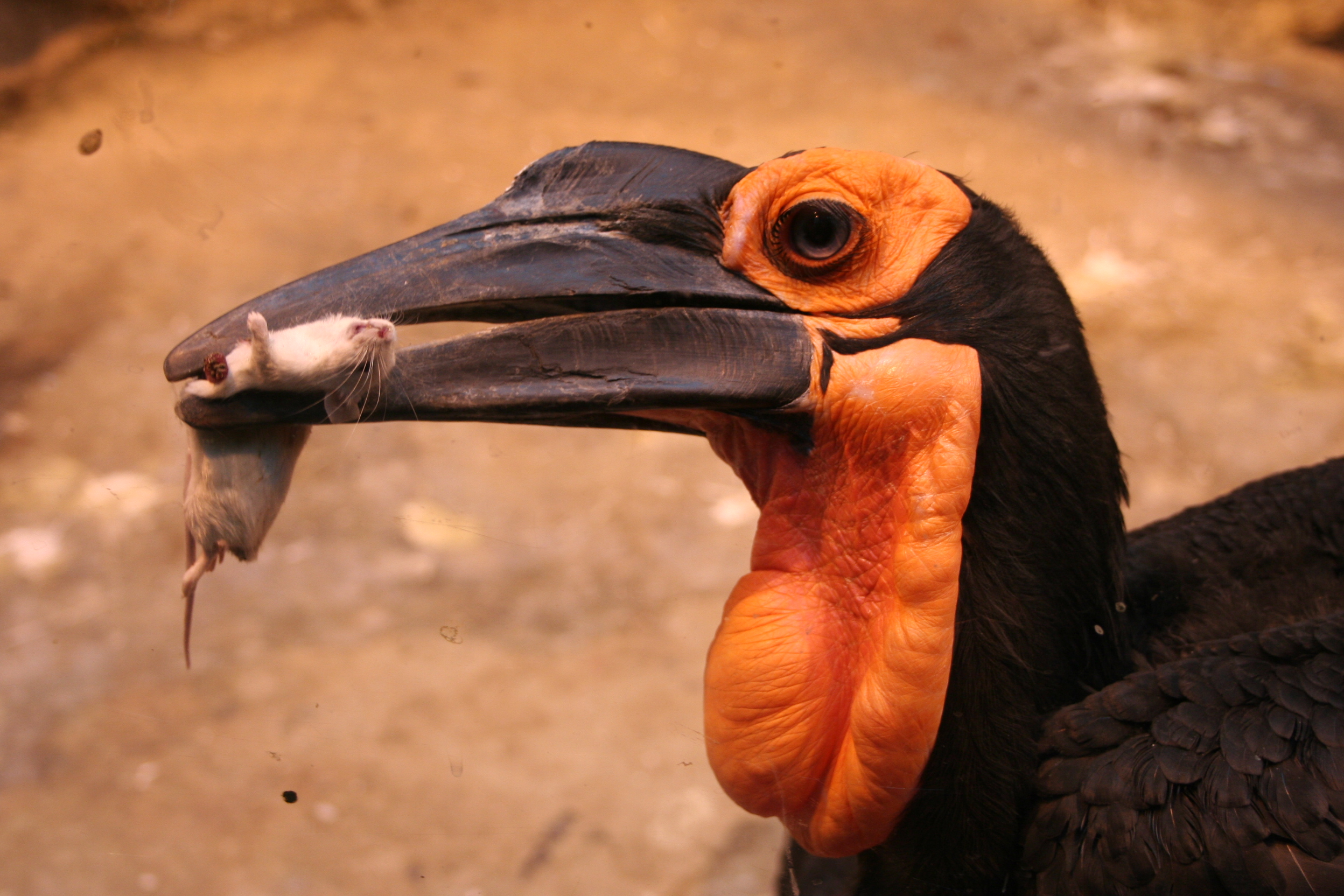 Bucorvus leadbeateri from Moscow Zoo exposition